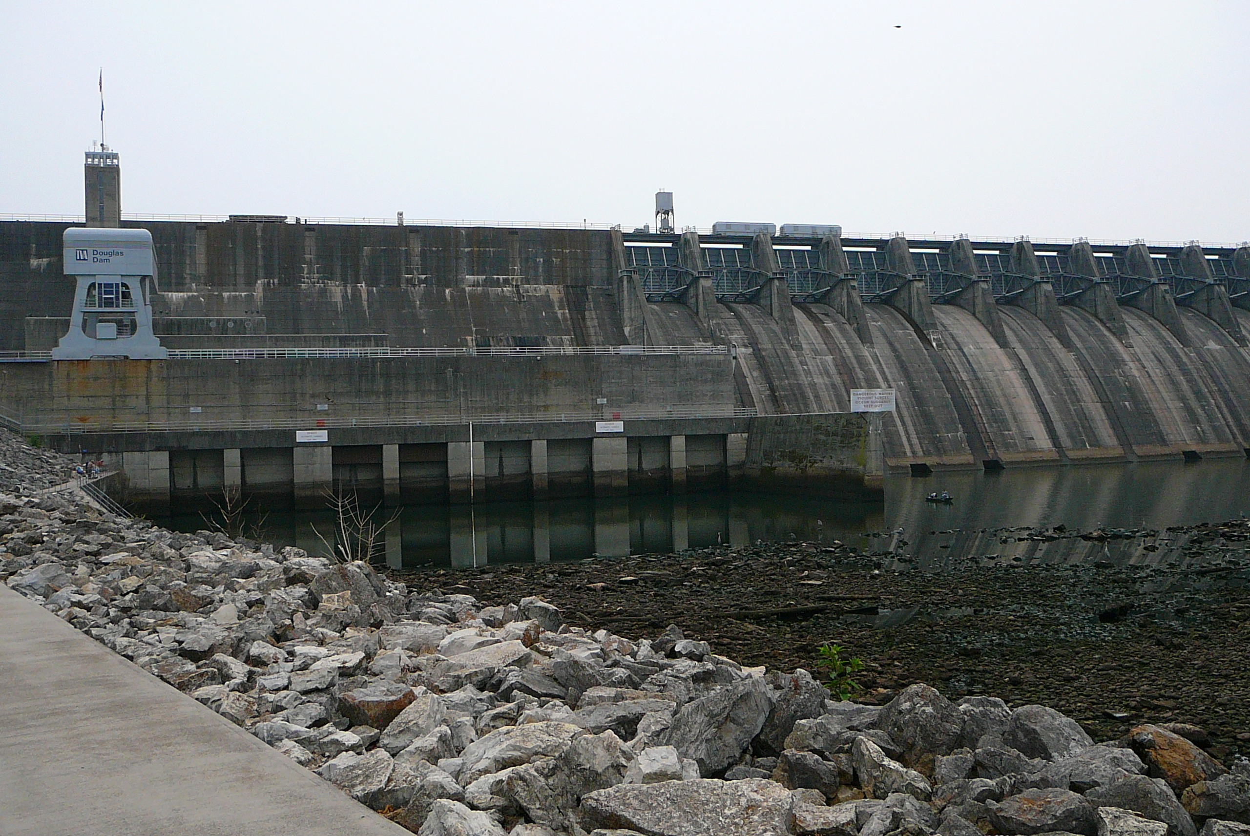 Douglas Dam near Sevierville, Tennessee. View from downstream facing the dam.